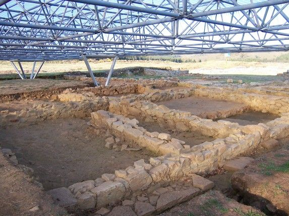 foto